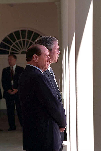 U.S. President George W. Bush and Italy's Prime Minister Silvio Berlusconi talk on the colonnade outside of the Oval Office